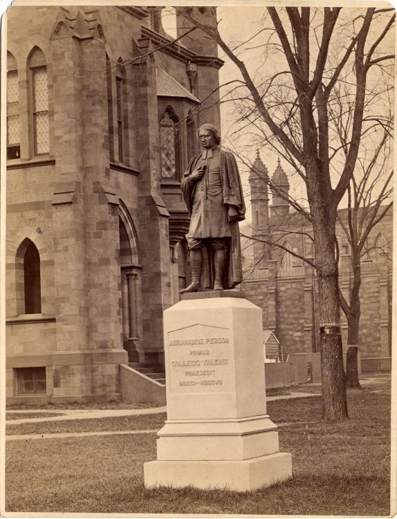 Statue of Rev. Abraham Pierson, of the founders of the Collegiate School, later Yale College, in New Haven, Connecticut. Lacking a prior depiction of Pierson, the sculptor, Launt Thompson, created an "idealized likeness" of the subject. Abraham Pierson, Yale University Photograph courtesy of the Yale University Manuscripts & Archives Digital Images Database.